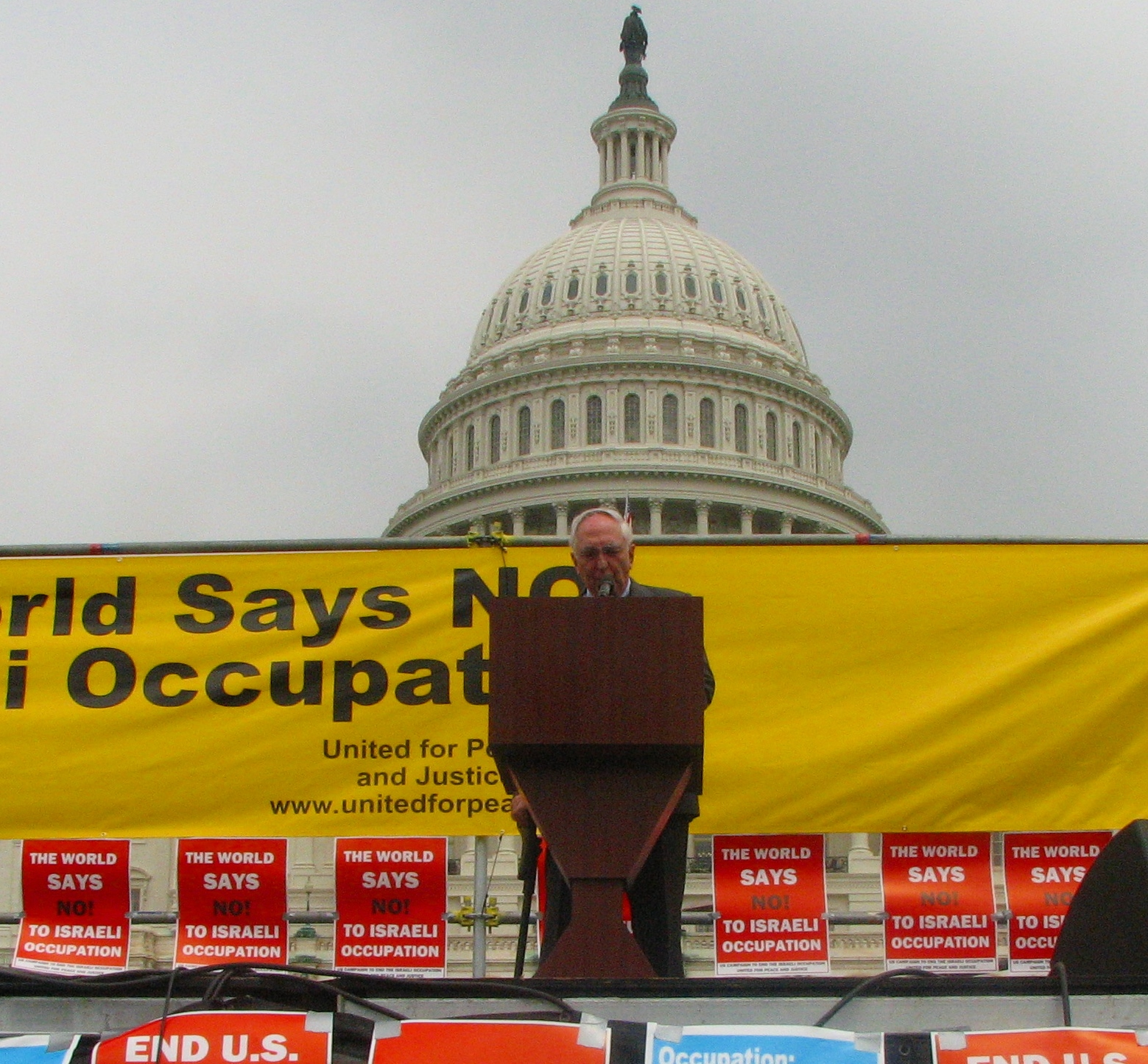 Ambassador Edward Peck speaks at "End the Israeli Occupation of Palestine" Rally . US Capitol Grounds . West Lawn . Washington DC . Sunday, 10 June 2007 . Elvert Xavier Barnes Protest Photography See video at by Elvert Xavier Barnes Videographically Speaking